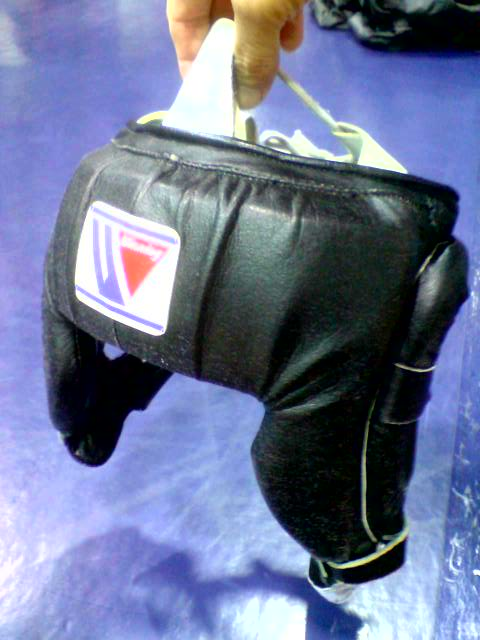 headgear.ama.jpg